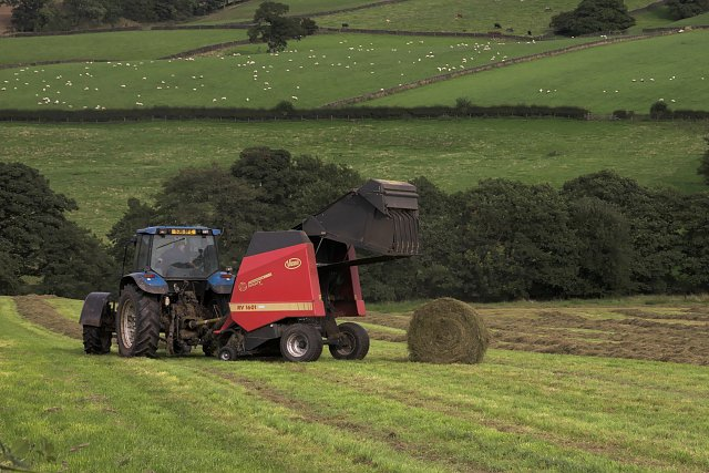 Baling silage near Tower Beck. This is a rather light 2nd cut of grass following the very dry July in 2006. The bales are to be wrapped in plastic then fed mainly to dairy cows through the Winter.